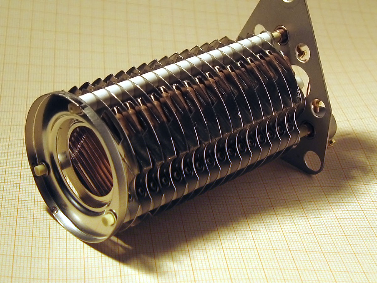 Secondary electron multiplier, venetian blind type